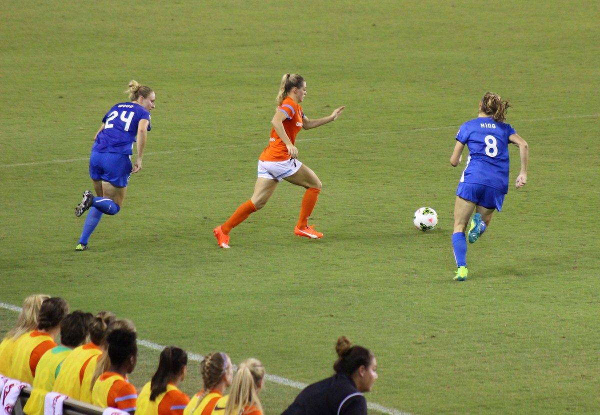 August 30, 2015 at BBVA Compass Stadium in Houston, Texas.